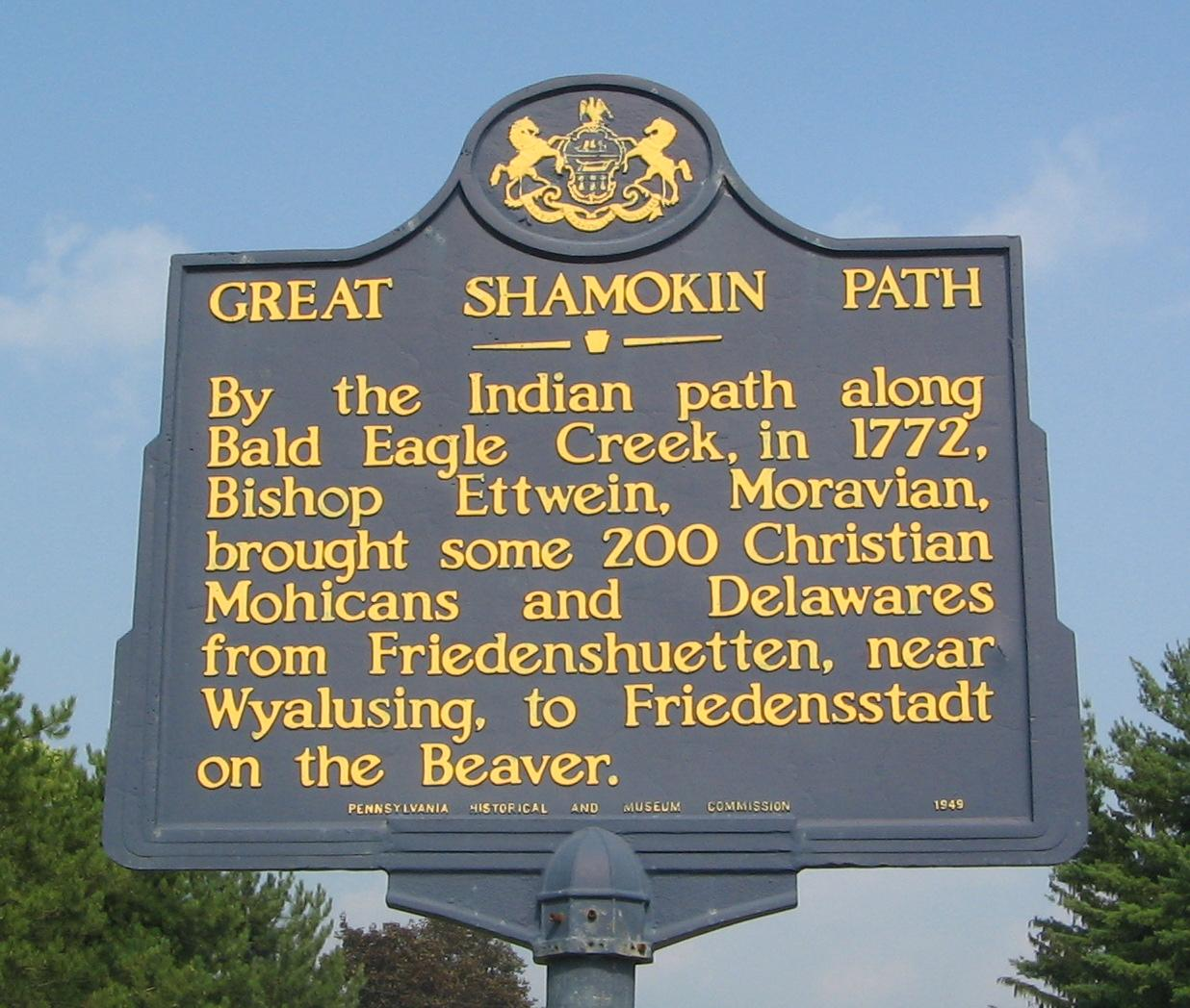 Pennsylvania Historical Marker on the Great Shamokin Path near the confluence of the West Branch Susquehanna River and Bald Eagle Creek, on PA Route 150 west of Lock Haven, Pennsylvania, USA